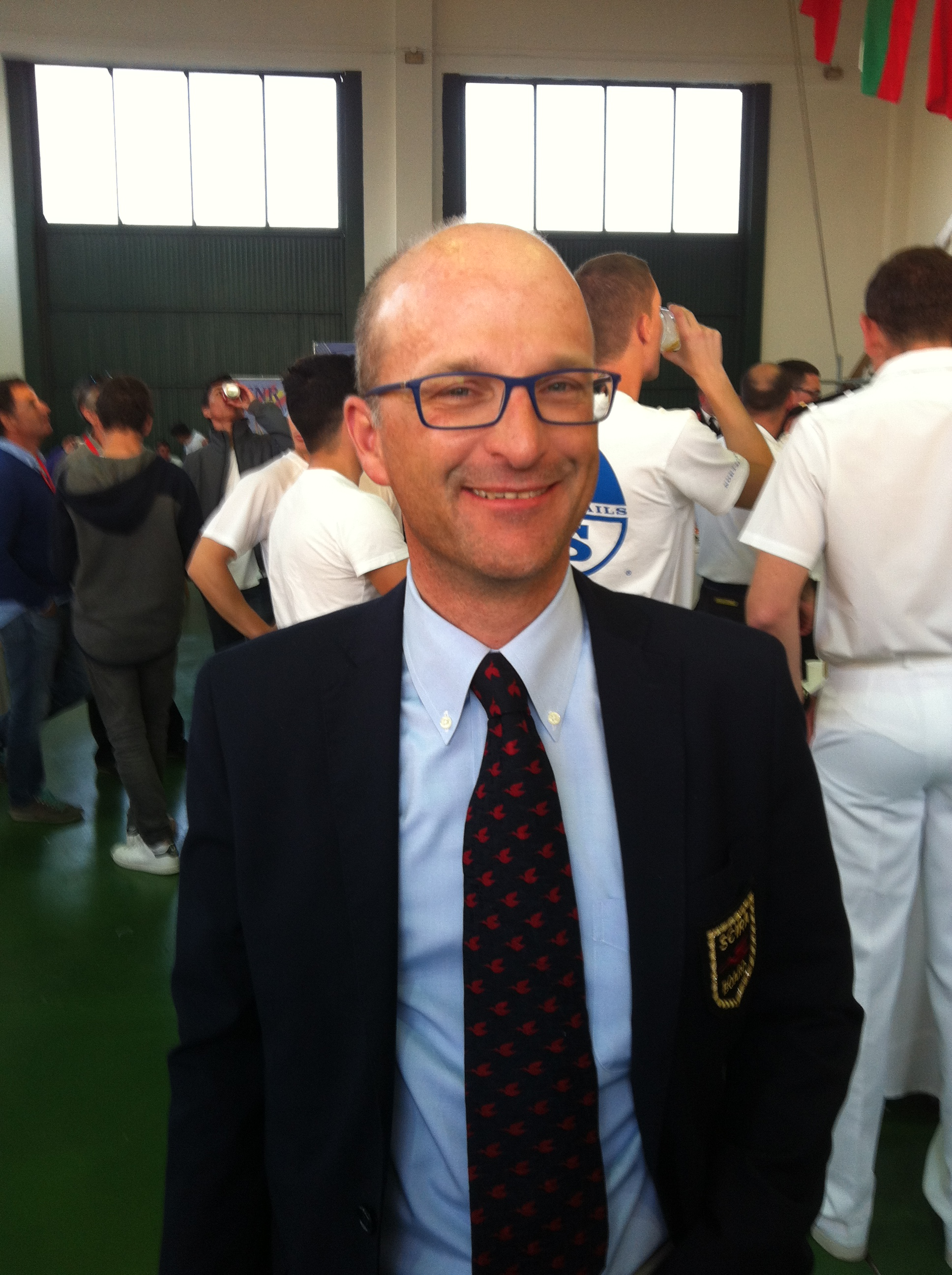 Pietro Fantoni at the regatta "Trofeo las Anclas" in Marín (Spain)